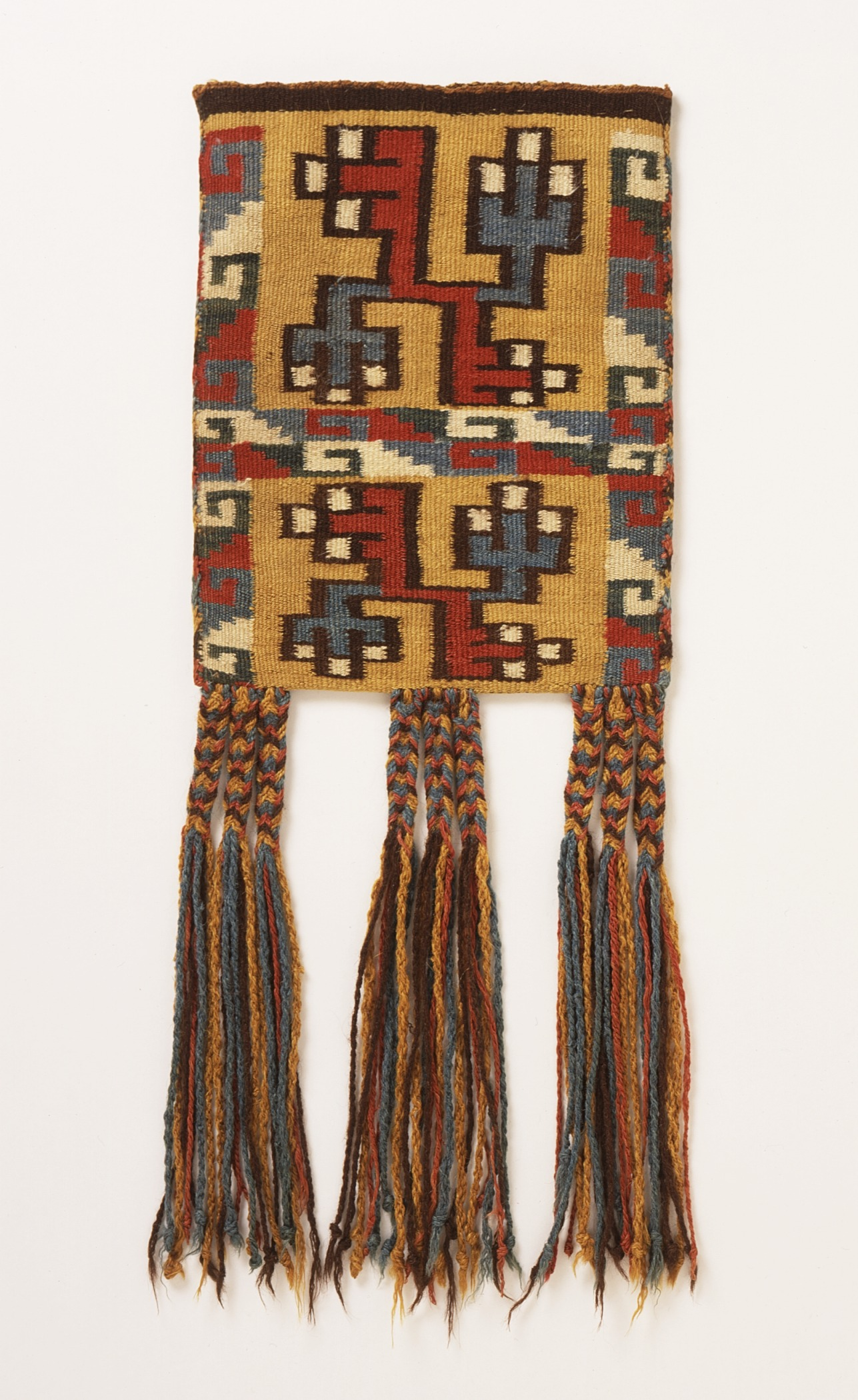 Peru, South Coast, Nasca Culture, Wari-related, A.D. 600-800 Costumes; Accessories Camelid fiber and cotton; dovetailed tapestry with loop stitch embroidery and braided fringe 16 1/4 x 6 1/2 in. (41.28 x 16.51 cm) Costume Council and Museum Associates Purchase (M.74.151.16) Costume and Textiles